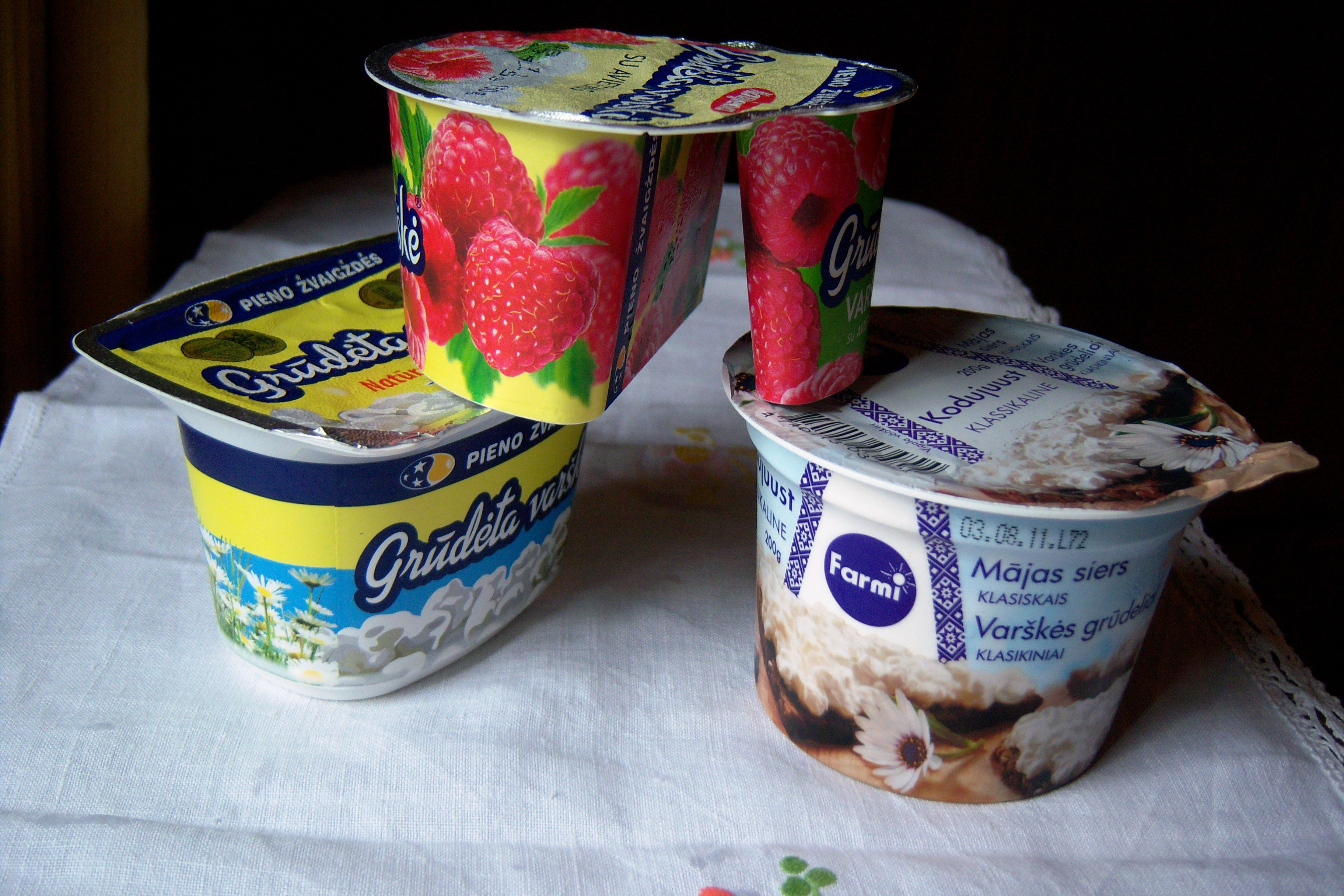 Cottage Cheese from Lithuania and Estonia